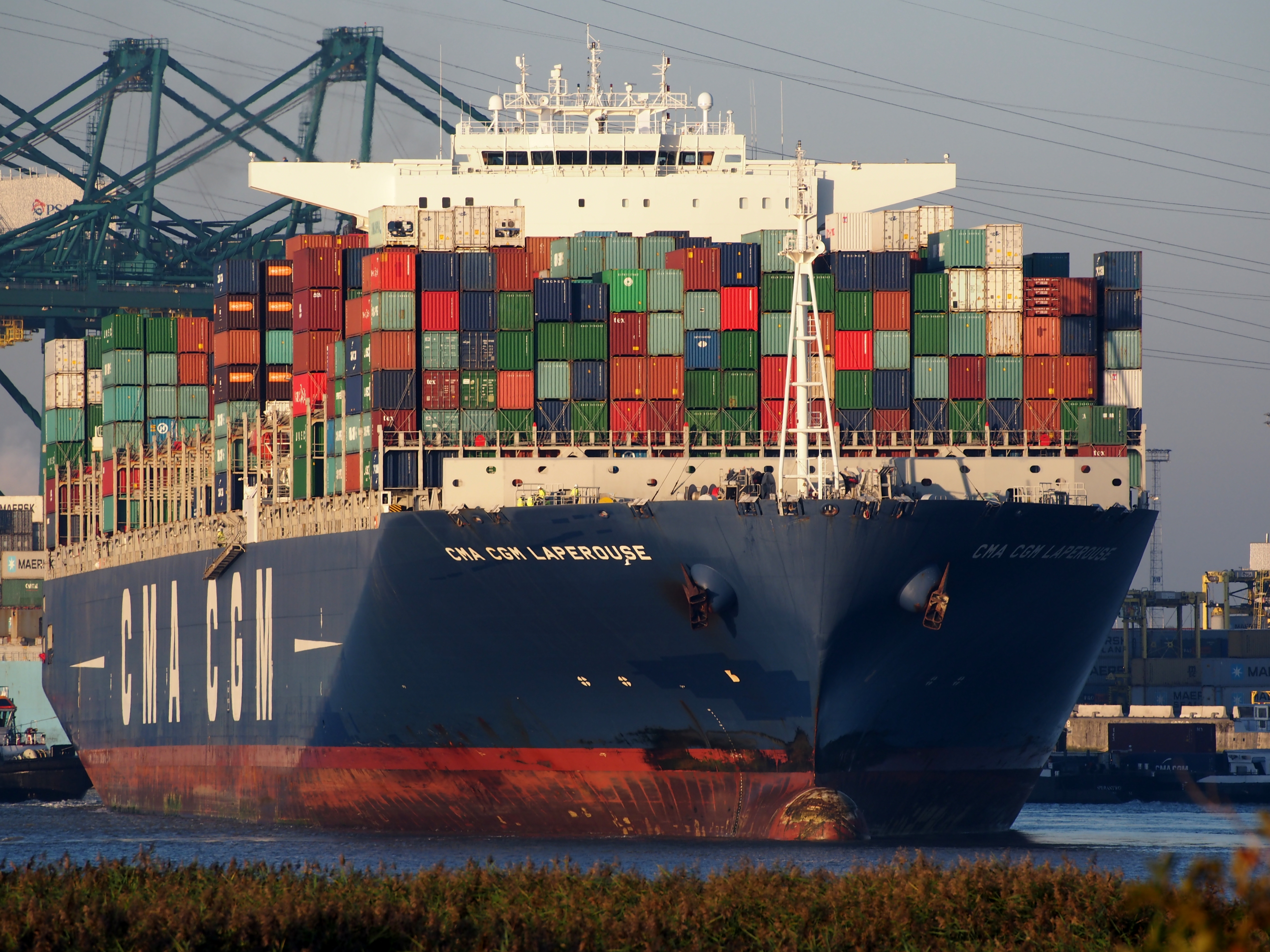 Photographed at Port of Antwerp, Belgium.